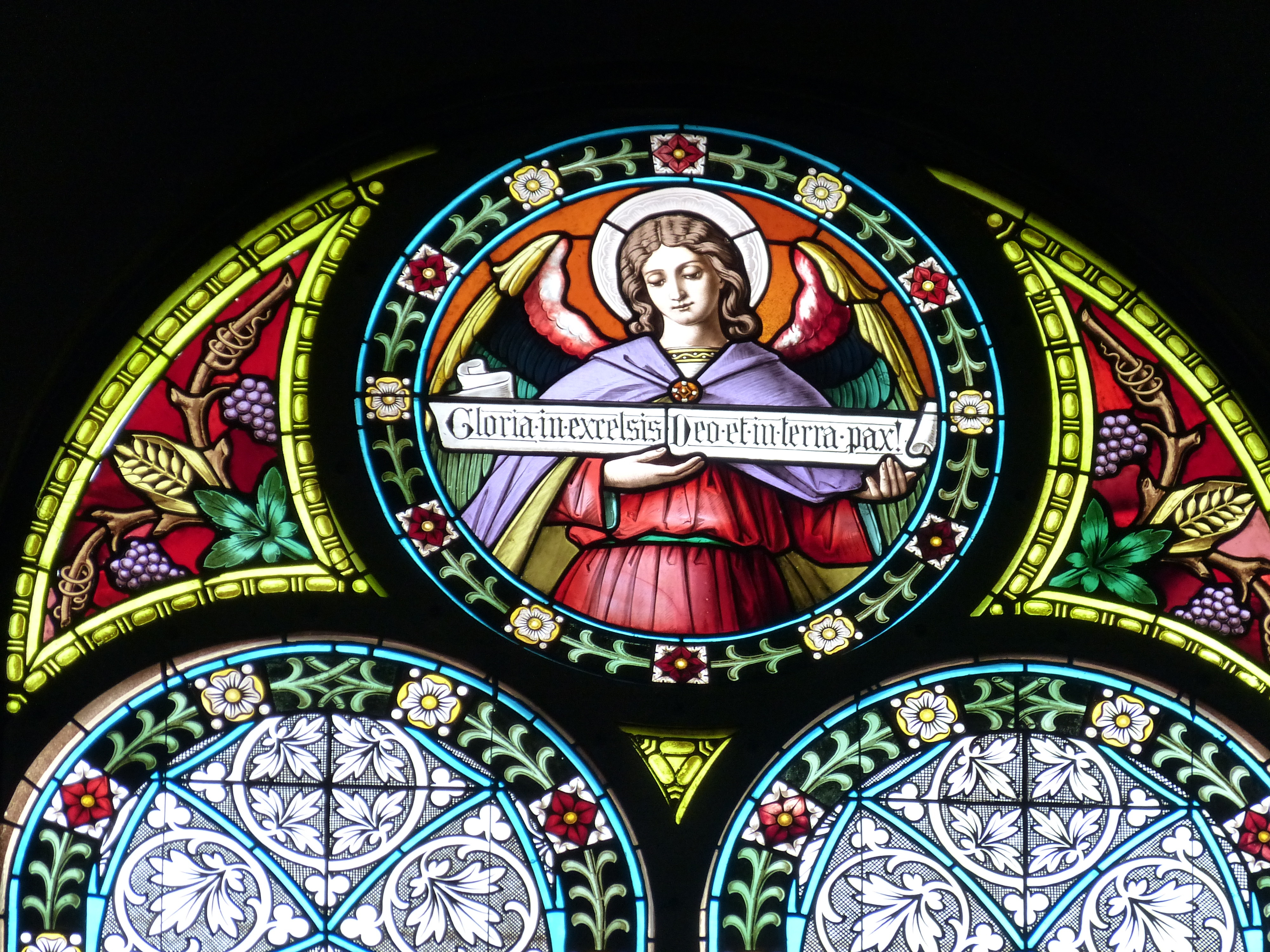 Schlägl ( Upper Austria ). Monastery church - Stained glass windows ( 1893 ) in the nave: Angel with the Latin inscription GLORIA IN EXCELSIS DEO ET IN TERRA PAX ( Glory to God and peace on earth )